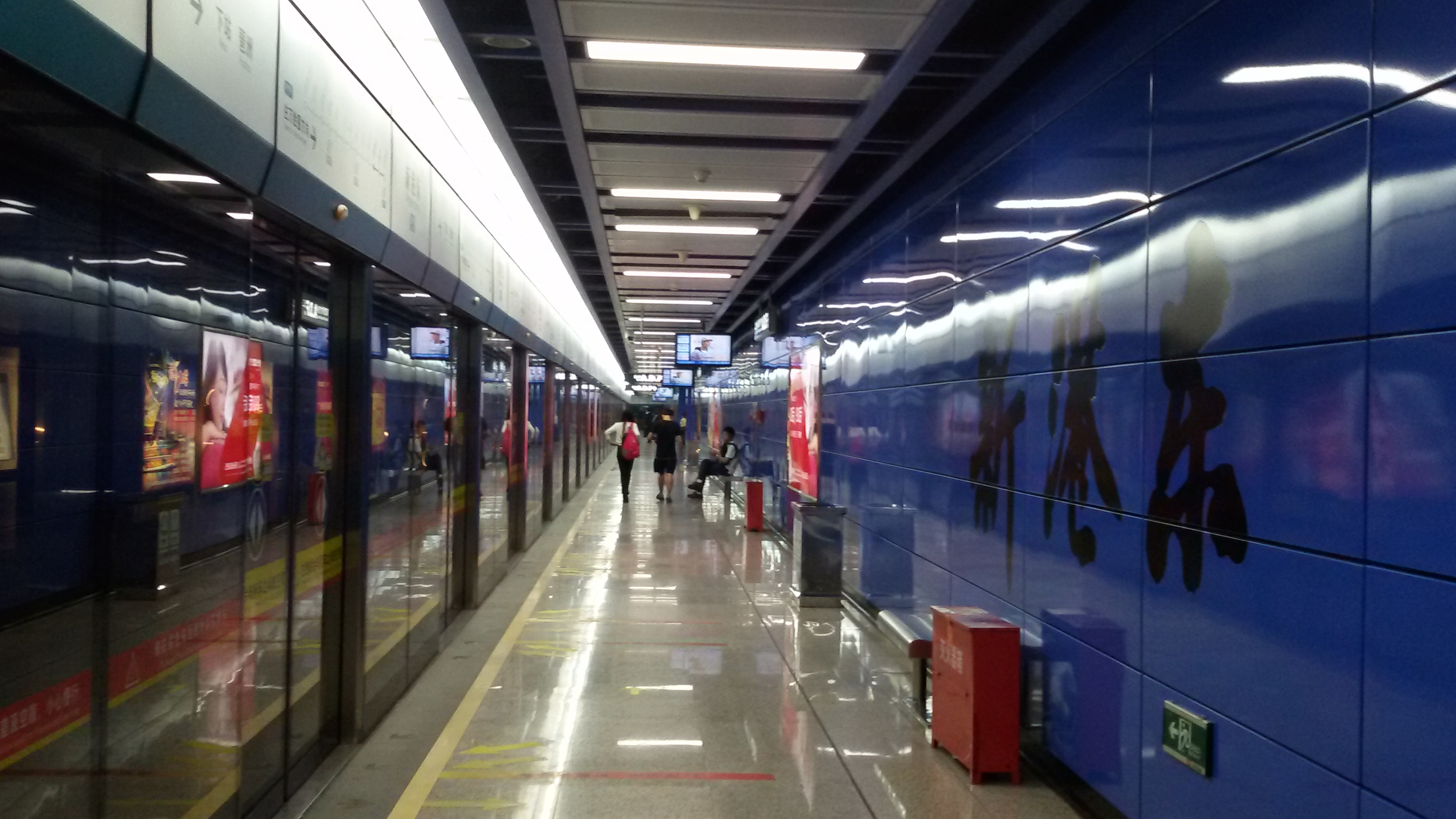 Station Platrform (Towards Wanshengwei) for Xingangdong Station in Guangzhou Metro 粵語: 廣州地鐵，新港東站（去萬勝圍嗰邊）嘅月台。